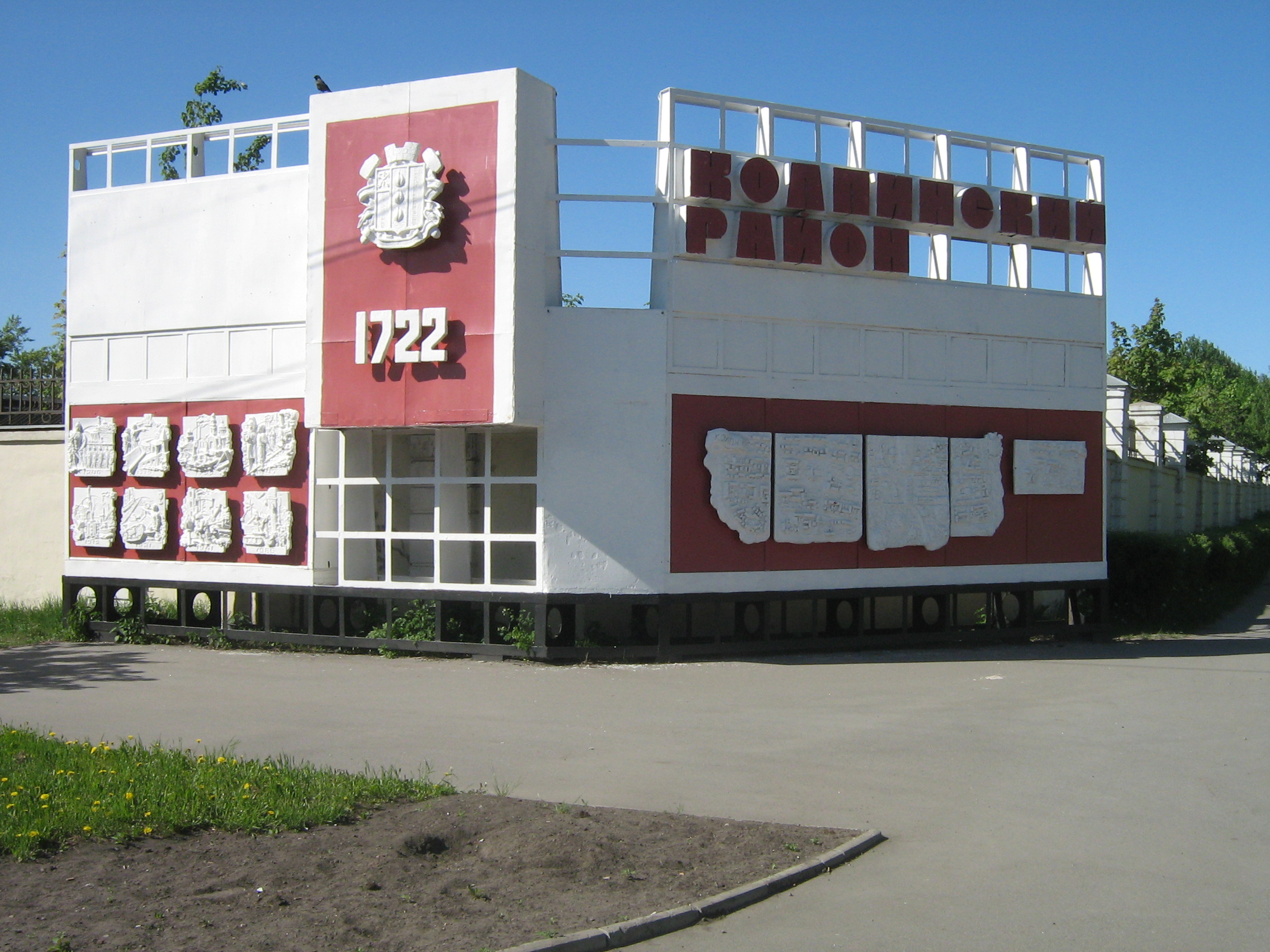 Kolpino (Russia)